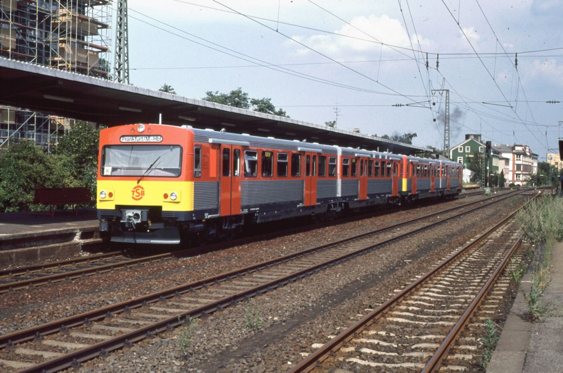 Frankfurt-Königsteiner-Eisenbahn multiple unit of type VT 2E in Frankfurt-Höchst.